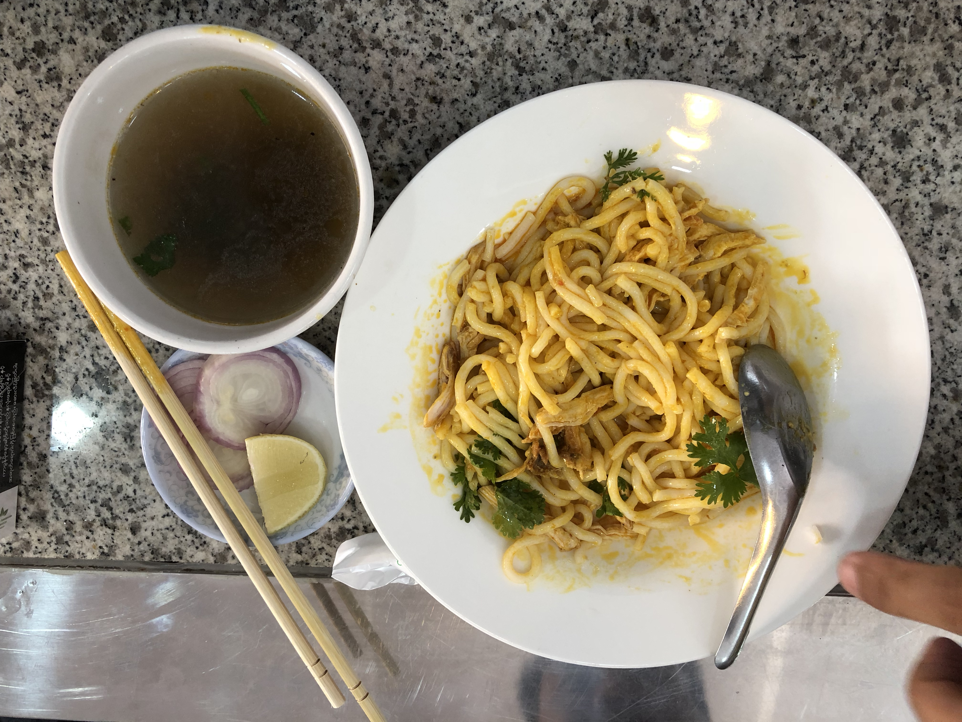 Nan Gyi Thoke မြန်မာဘာသာ: နန်းကြီးသုပ်